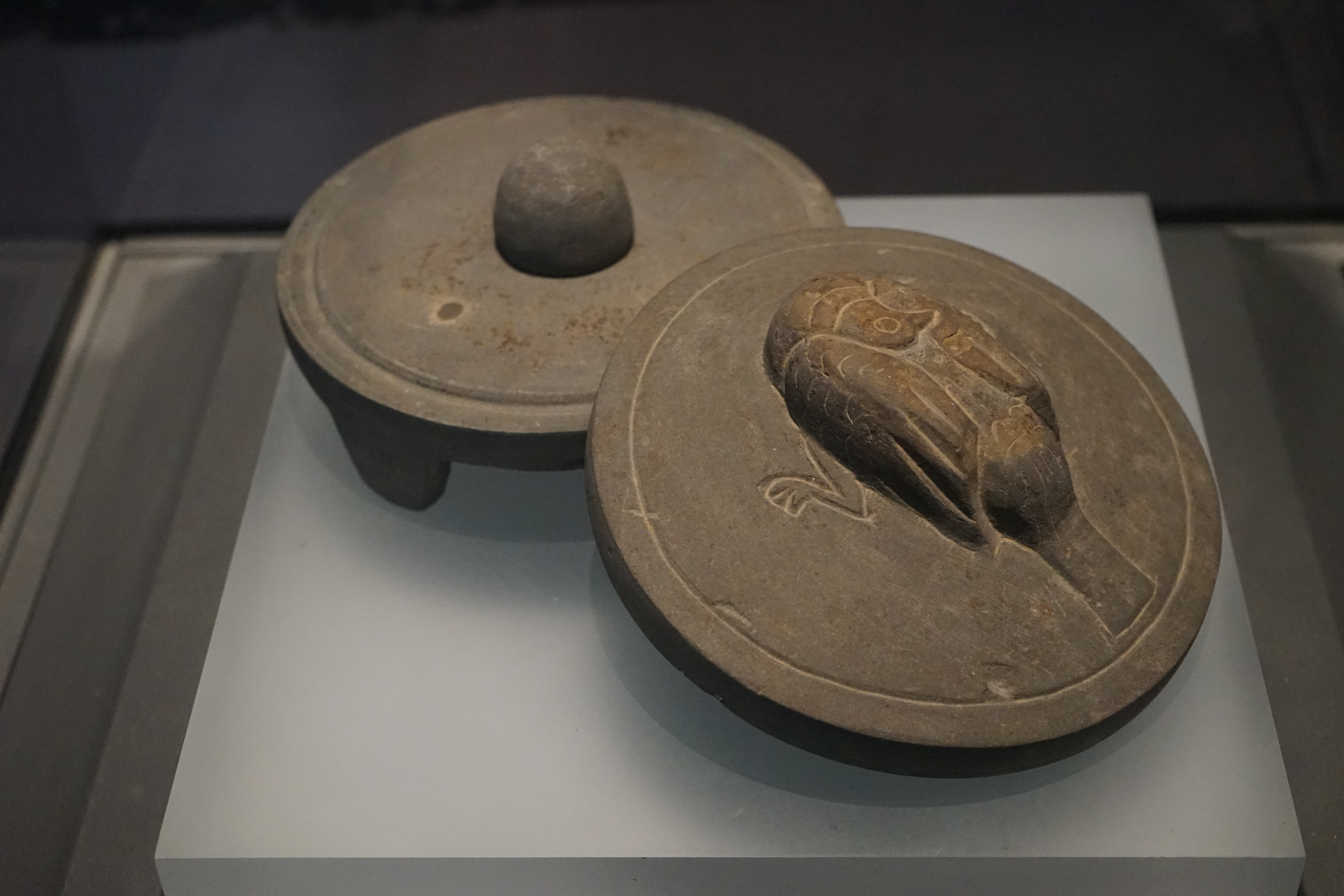 Inkstone with three legs and a bird cover (鸟纽盖三足石砚). Eastern Han Dynasty. Excavated at Ganyuzui tomb (鱤鱼嘴墓葬), Qichun. First Grade Cultural Relic.